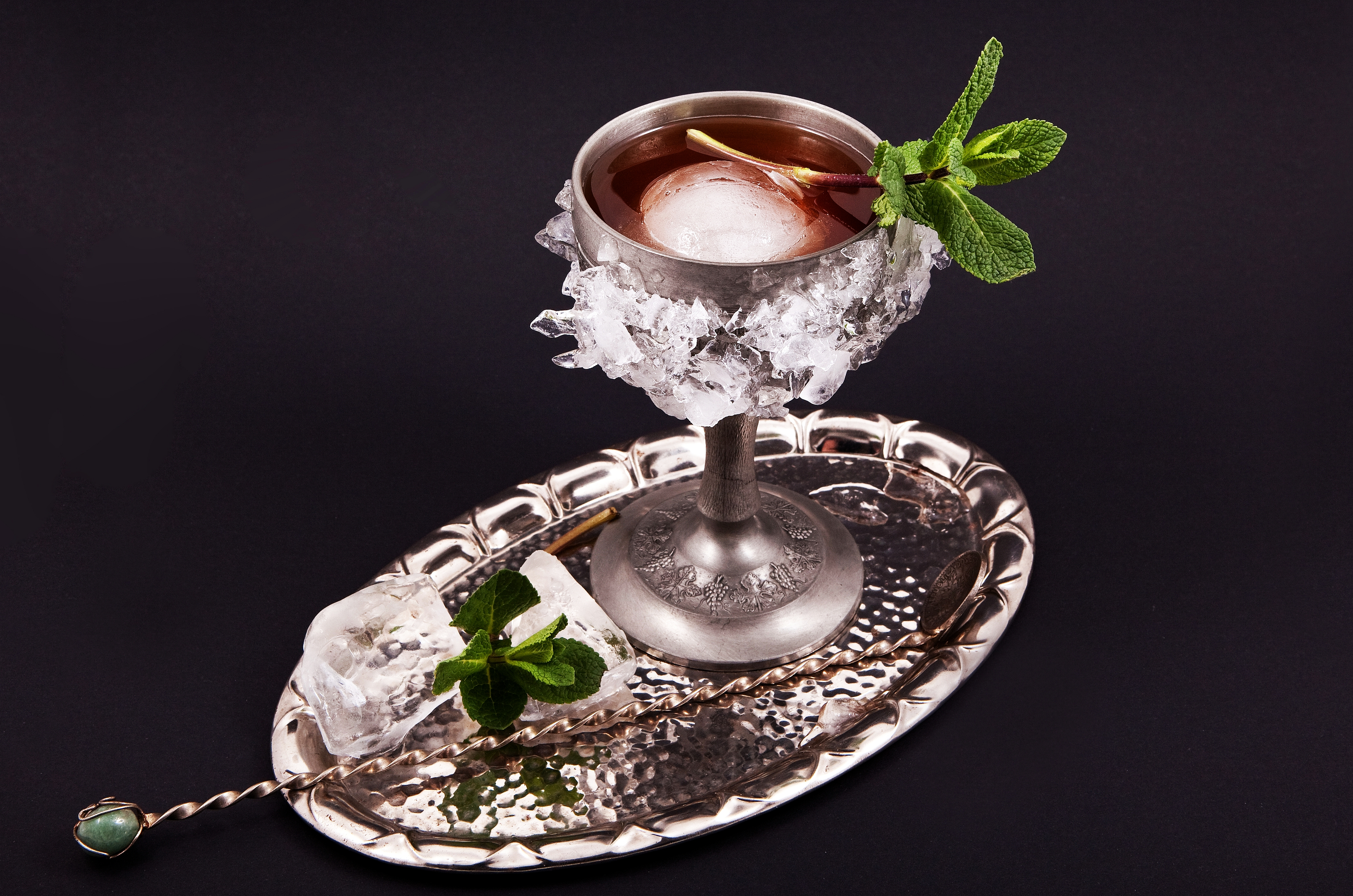 Widows Kiss, a classic cocktail, served on an iceball in a silver coupette, covered with ice. There's also barspoon on the tray